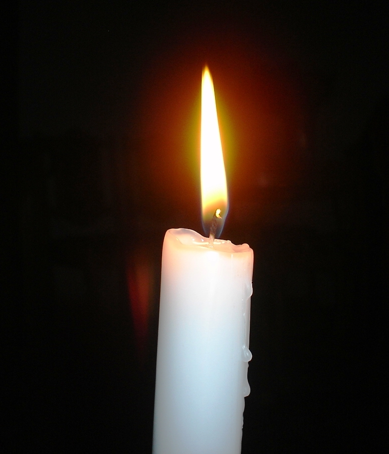 The Candle of Hope Location: Kosovo